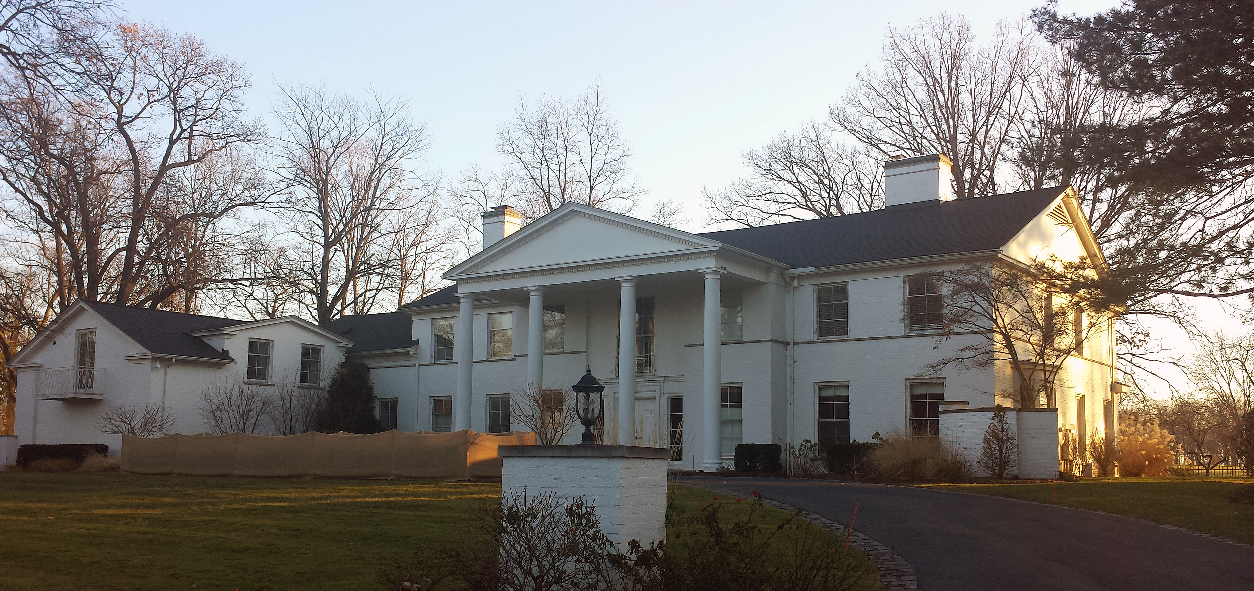 Home of Max M. Fisher in Franklin, Michigan Hugh T. Keyes, Architect